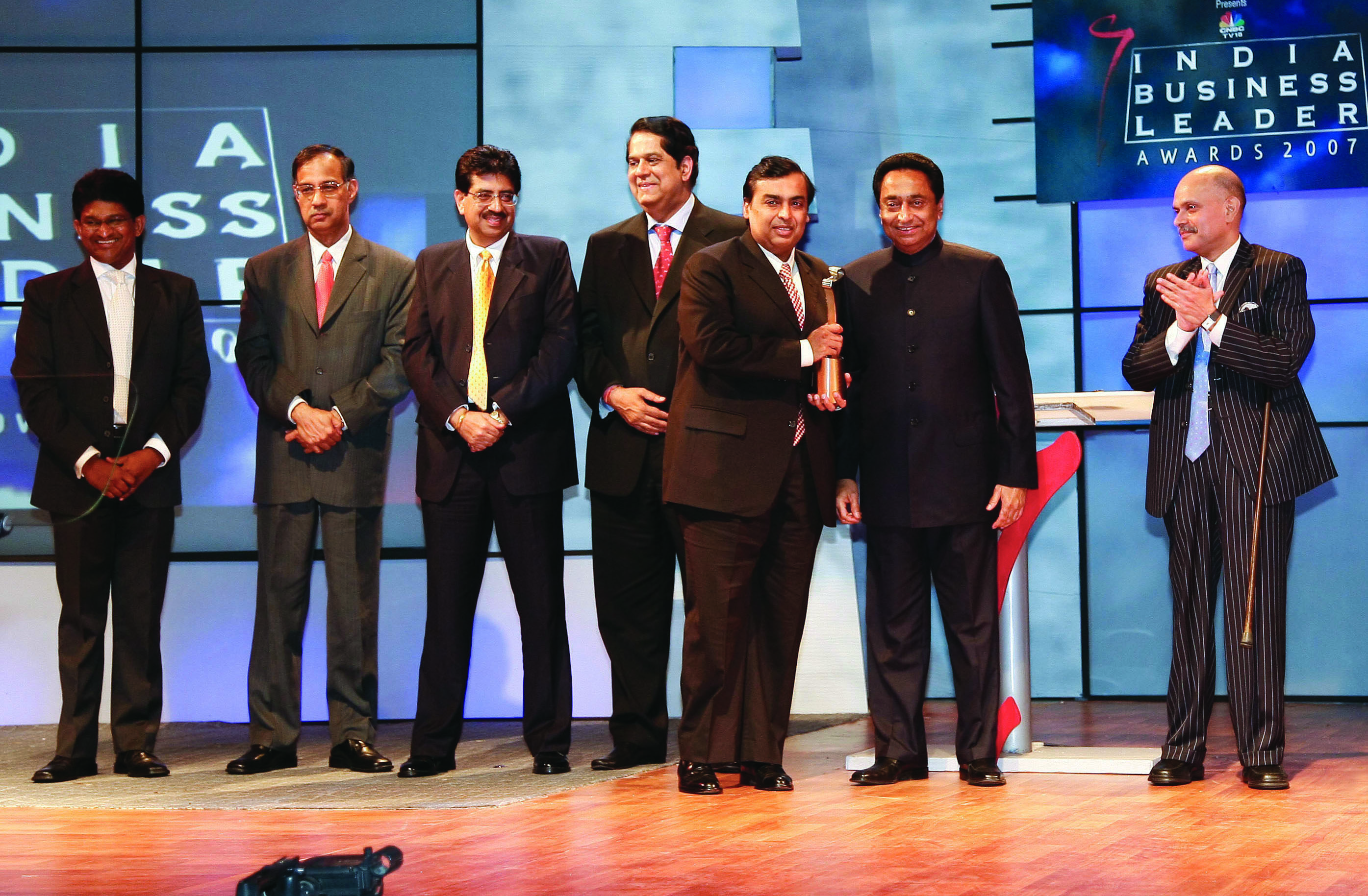 Mukesh Ambani is given the CNBC India Business Award, 2007 by the then Minister Kamal Nath.